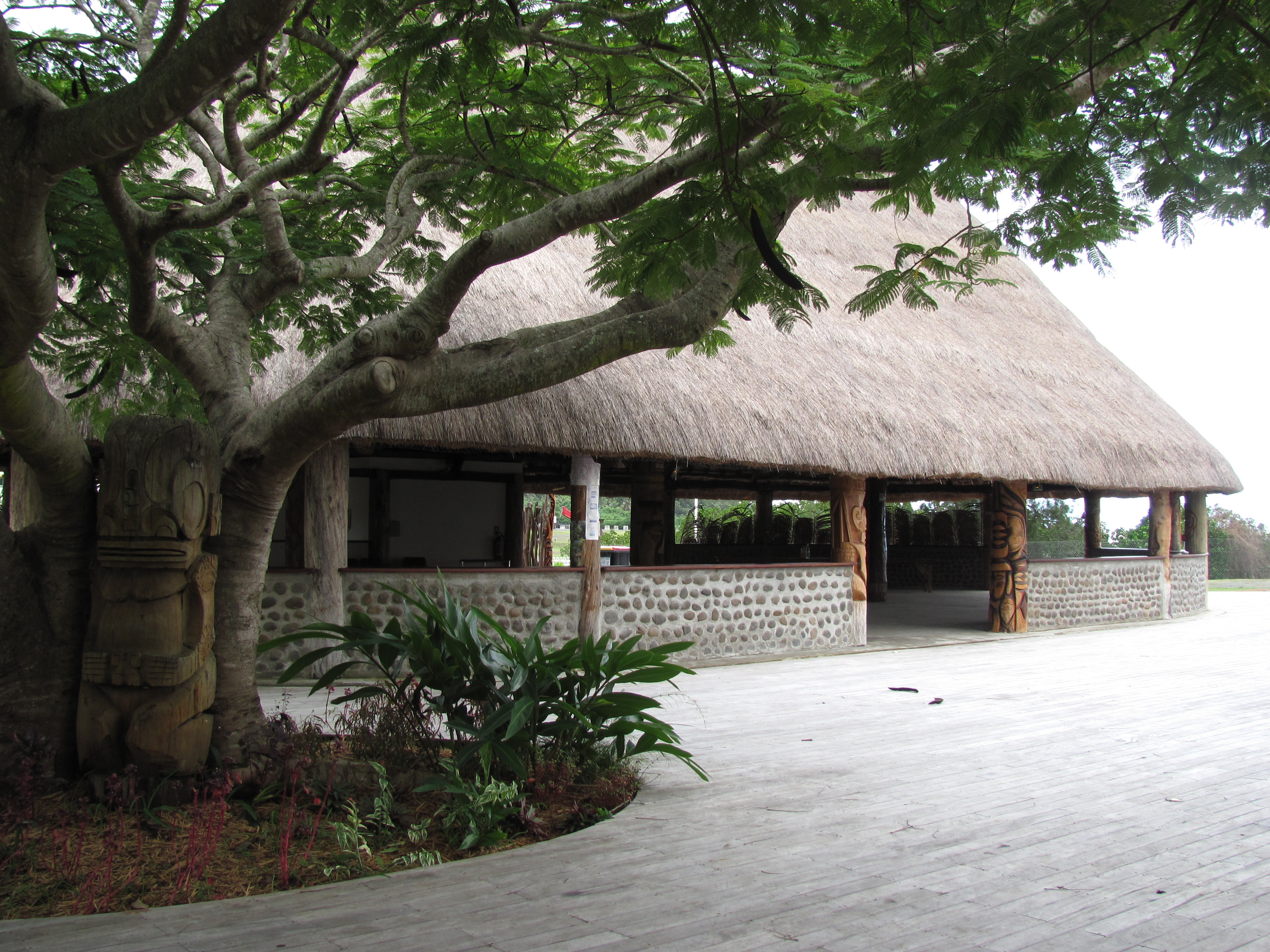 Part of the Town Hall, Le Mont-Dore, New Caledonia